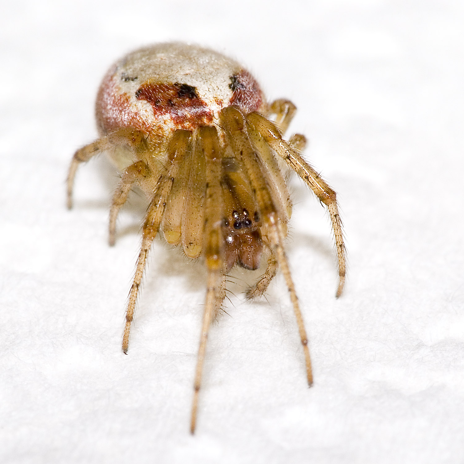 Zygiella atrica, female, Many thanks to Aloysius Staudt from for determination!